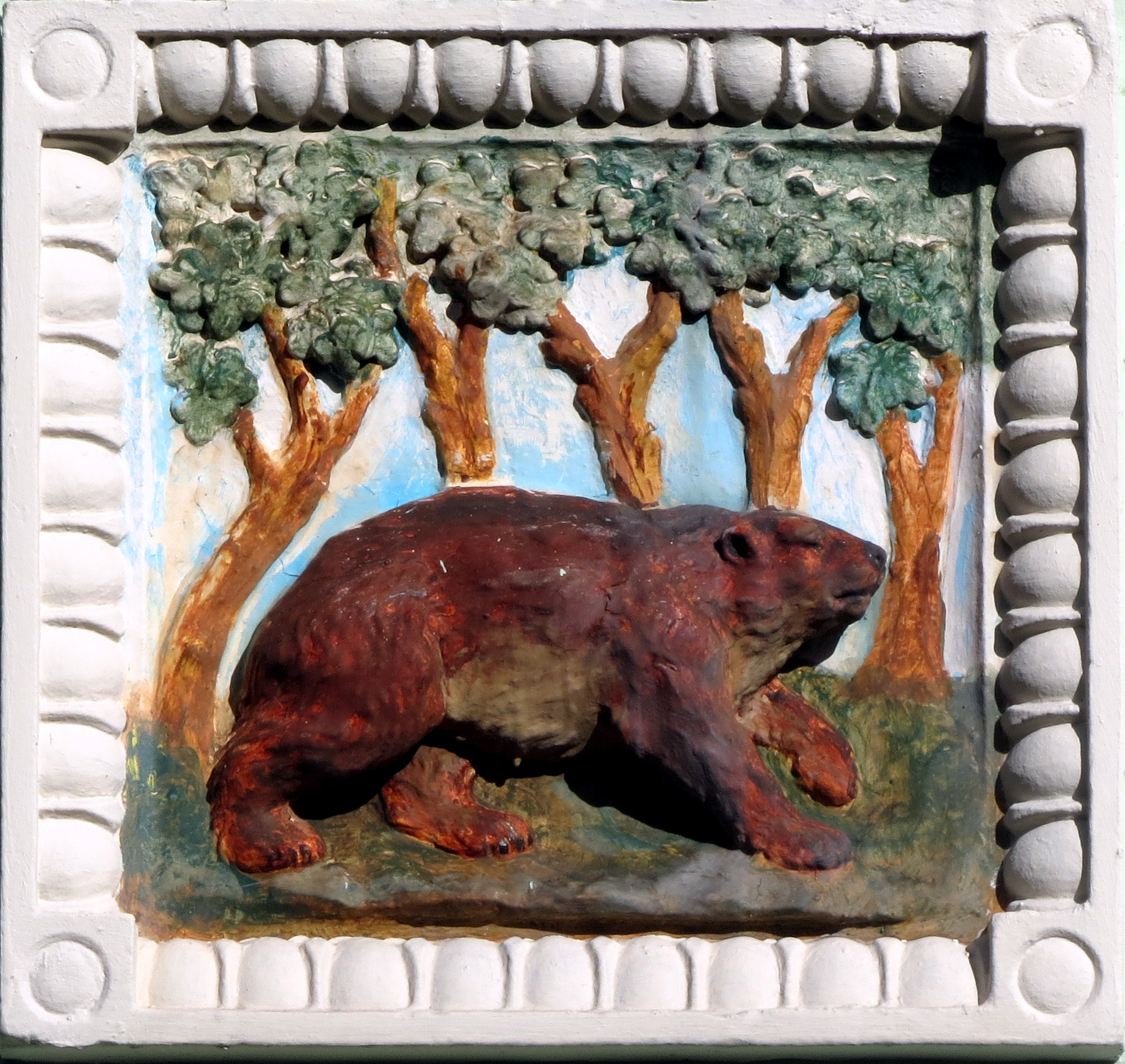 Plaque depicting a bear in a wood, located on The Parade, Bearwood, adjacent to Sandon Place.